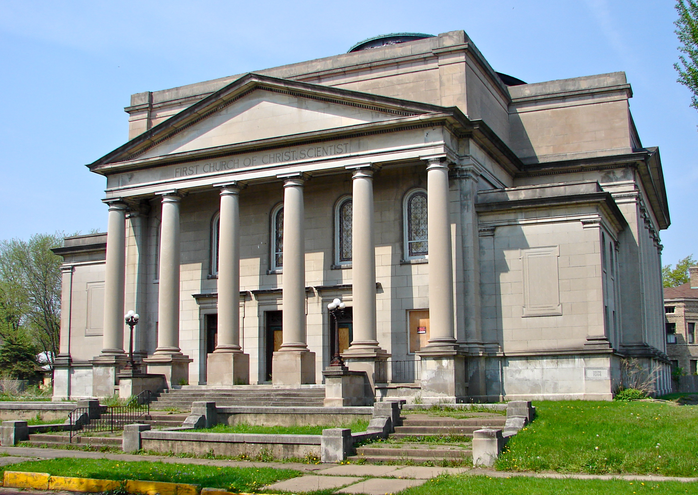 The former First Church of Christ, Scientist, is a historic Christian Science church building located at 700 22nd Street, Rock Island, Illinois. U.S.A. Designed by architect William C. Jones of Chicago in the Palladian style, it was built between 1914-1915. Part of the Broadway Historic District on the NRHP since August 14, 1998 HD is roughly bounded by 17th and 23rd Sts., 5th and 7th Aves., Lincoln Court, and 12th and 13th Aves., Rock Island.